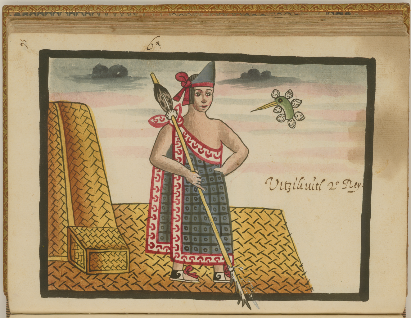 The Tovar Codex, attributed to the 16th-century Mexican Jesuit Juan de Tovar, contains detailed information about the rites and ceremonies of the Aztecs (also known as Mexica). The codex is illustrated with 51 full-page paintings in watercolor. Strongly influenced by pre-contact pictographic manuscripts, the paintings are of exceptional artistic quality. The manuscript is divided into three sections. The first section is a history of the travels of the Aztecs prior to the arrival of the Spanish. The second section, an illustrated history of the Aztecs, forms the main body of the manuscript. The third section contains the Tovar calendar. This illustration, from the second section, depicts Huitziláihuitl, holding a spear or scepter, standing on a reed mat and next to a basket-work throne. Above him is a hummingbird. Huitziláihuitl (or Huitzilihuitl, reigned 1395–1417), whose name is derived from the hummingbird symbol of the Aztec god Huitzilopochtli (the god of the sun and war), was the second emperor of the Aztecs. He is dressed in the clothes of the highest priests. The designs on his sandals are associated with the god Quetzalcoatl and with his Toltec ancestors. Aztecs; Codex; Huitzilihuitl, flourished 1395–1417; Indians of Mexico; Indigenous peoples; Kings and rulers; Mesoamerica; Tovar Codex